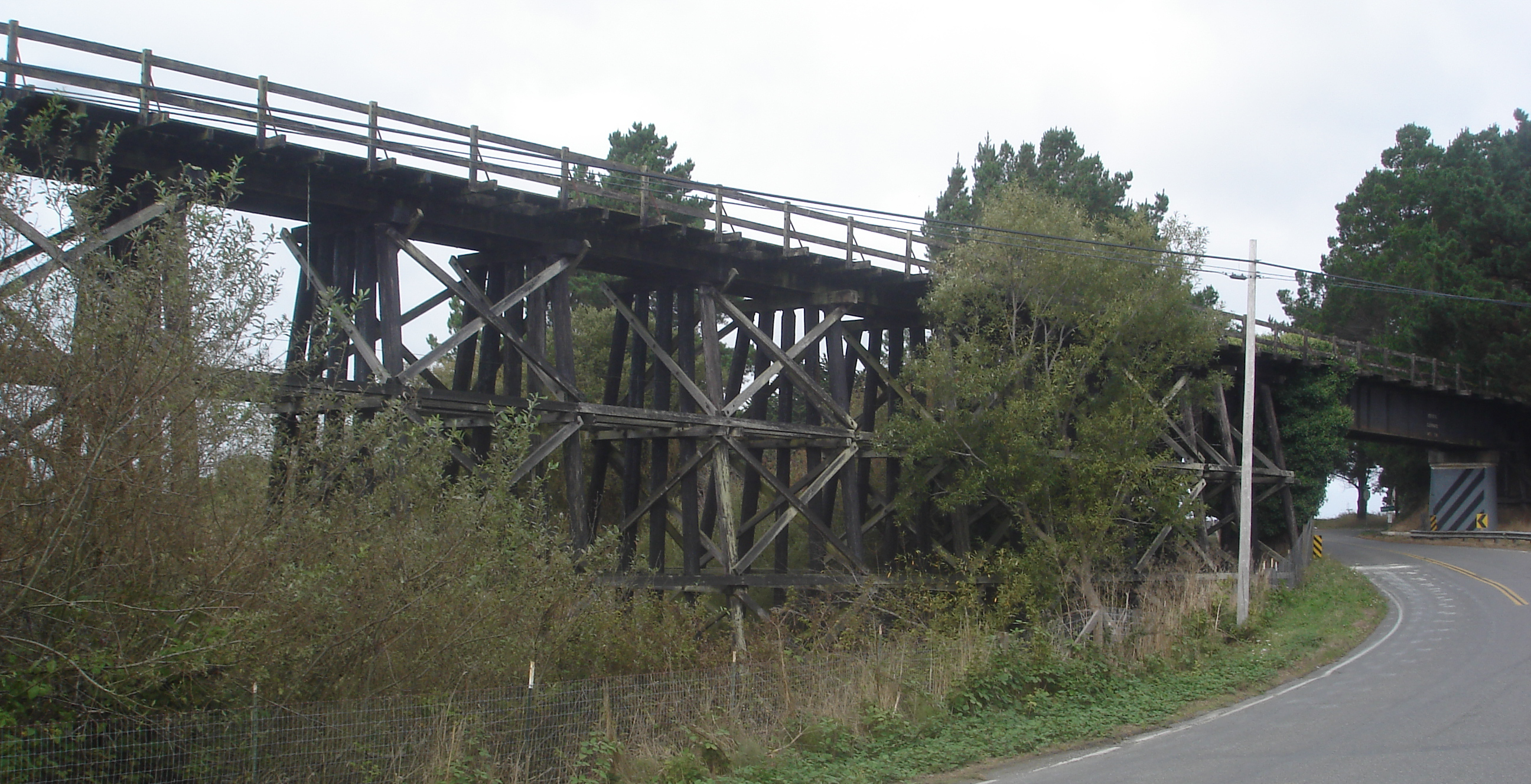 Northwestern Pacific Railroad trestle over Swauger Creek and former highway 101 near Loleta, California